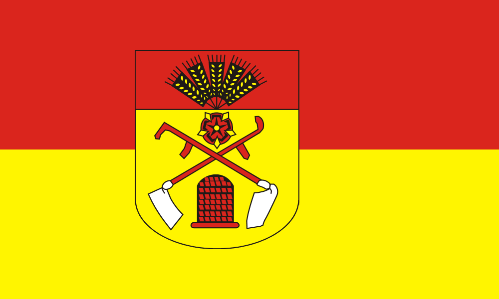 vertical display flag of the German municipality of Augustdorf, granted 19 March 1968